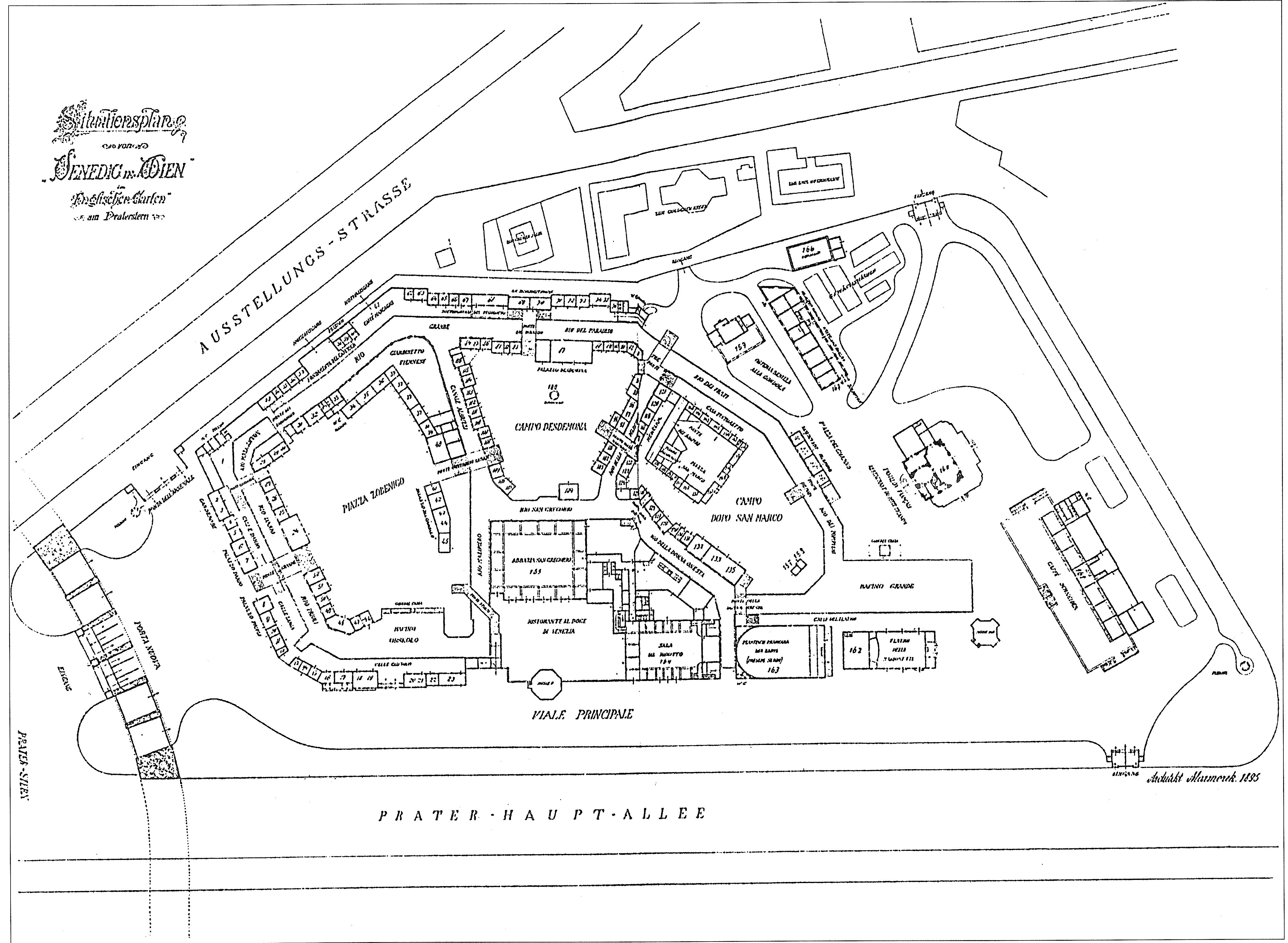 Plan of the exhibition "Venedig in Wien"